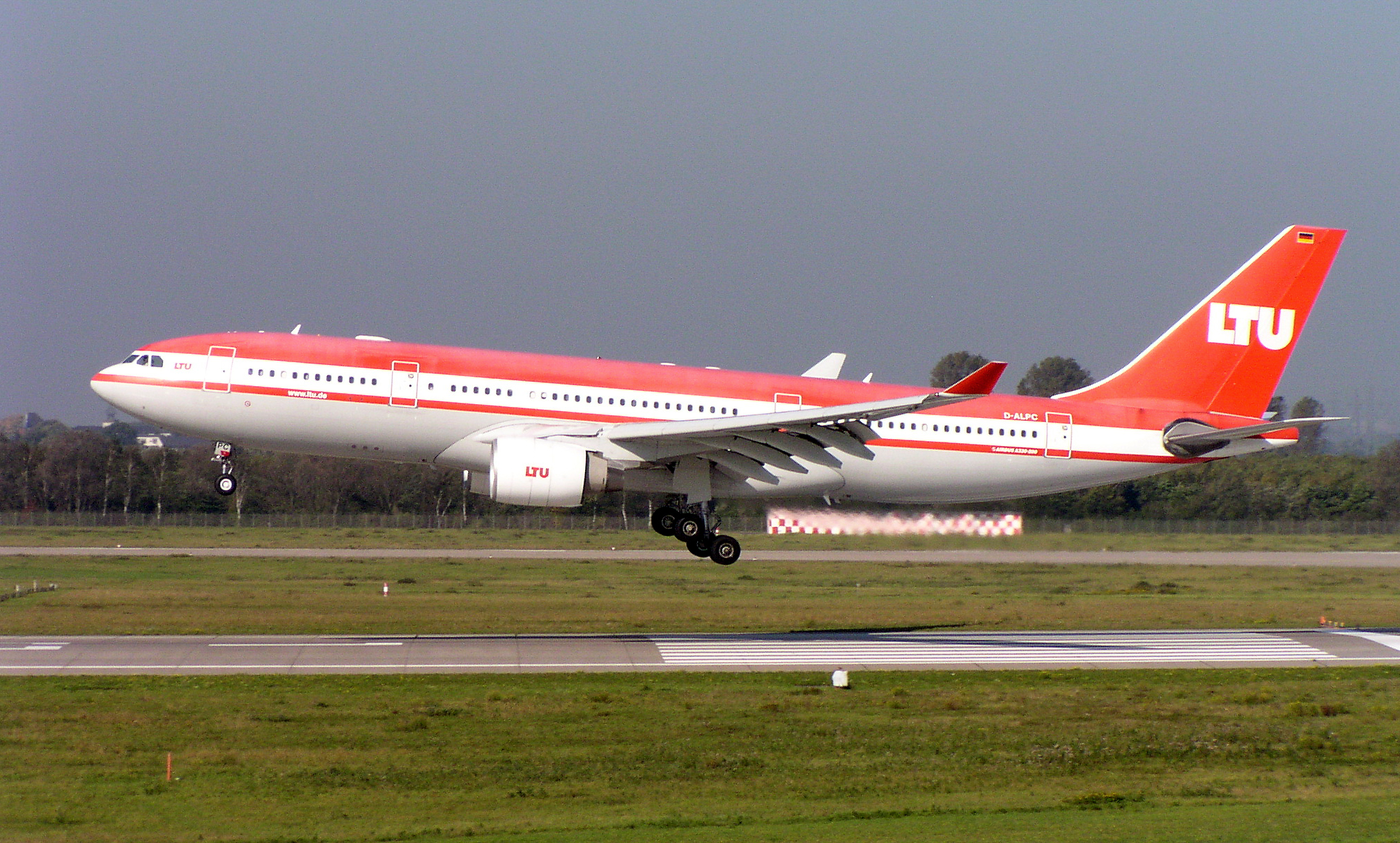 Description: LTU International Airbus A330-223 in Düsseldorf, October 2005. Photographer: Arcturus Licence: GFDL + cc-by-sa-2.0-de